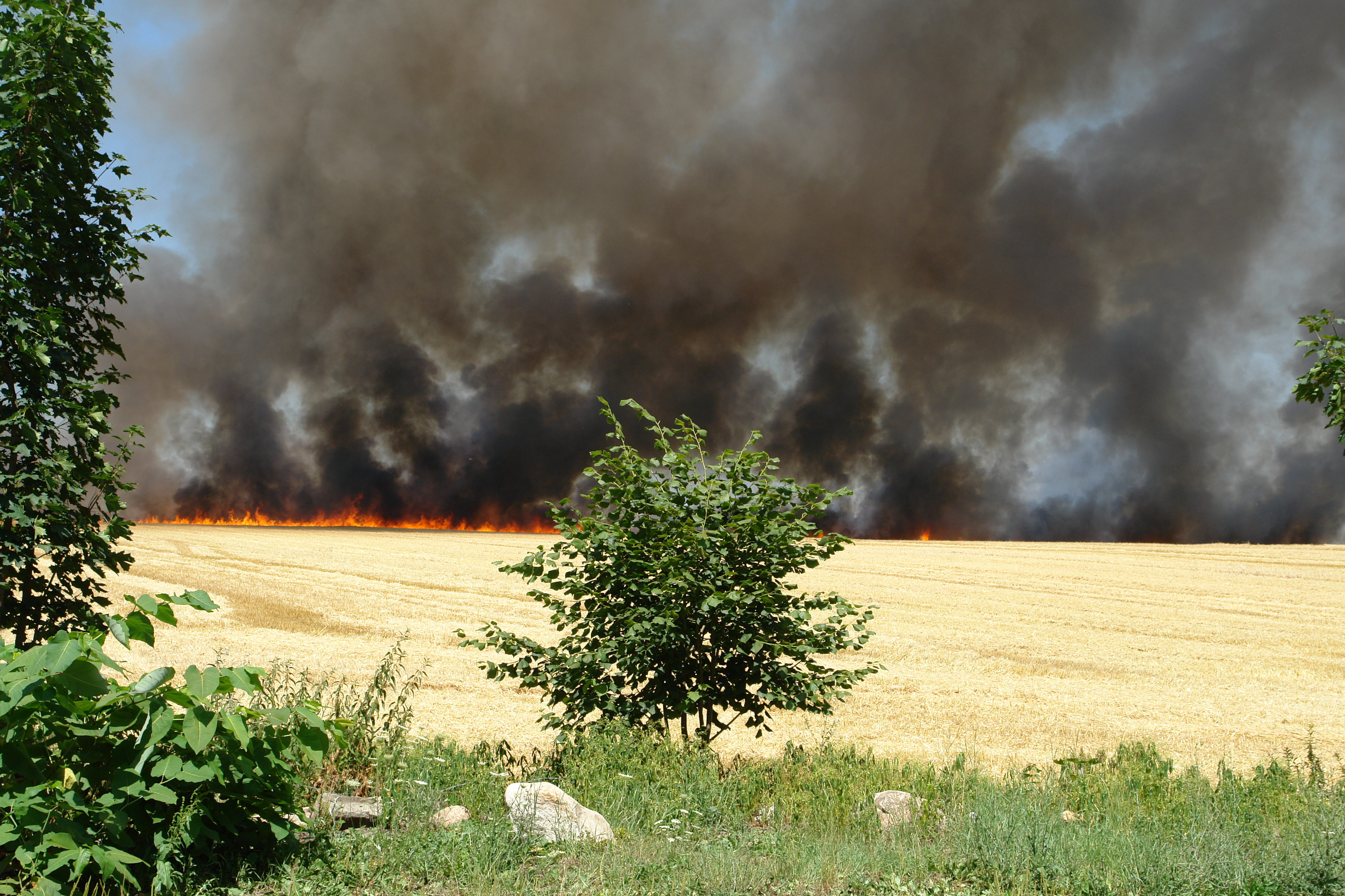 Conflagration near Bautzen, Germany.